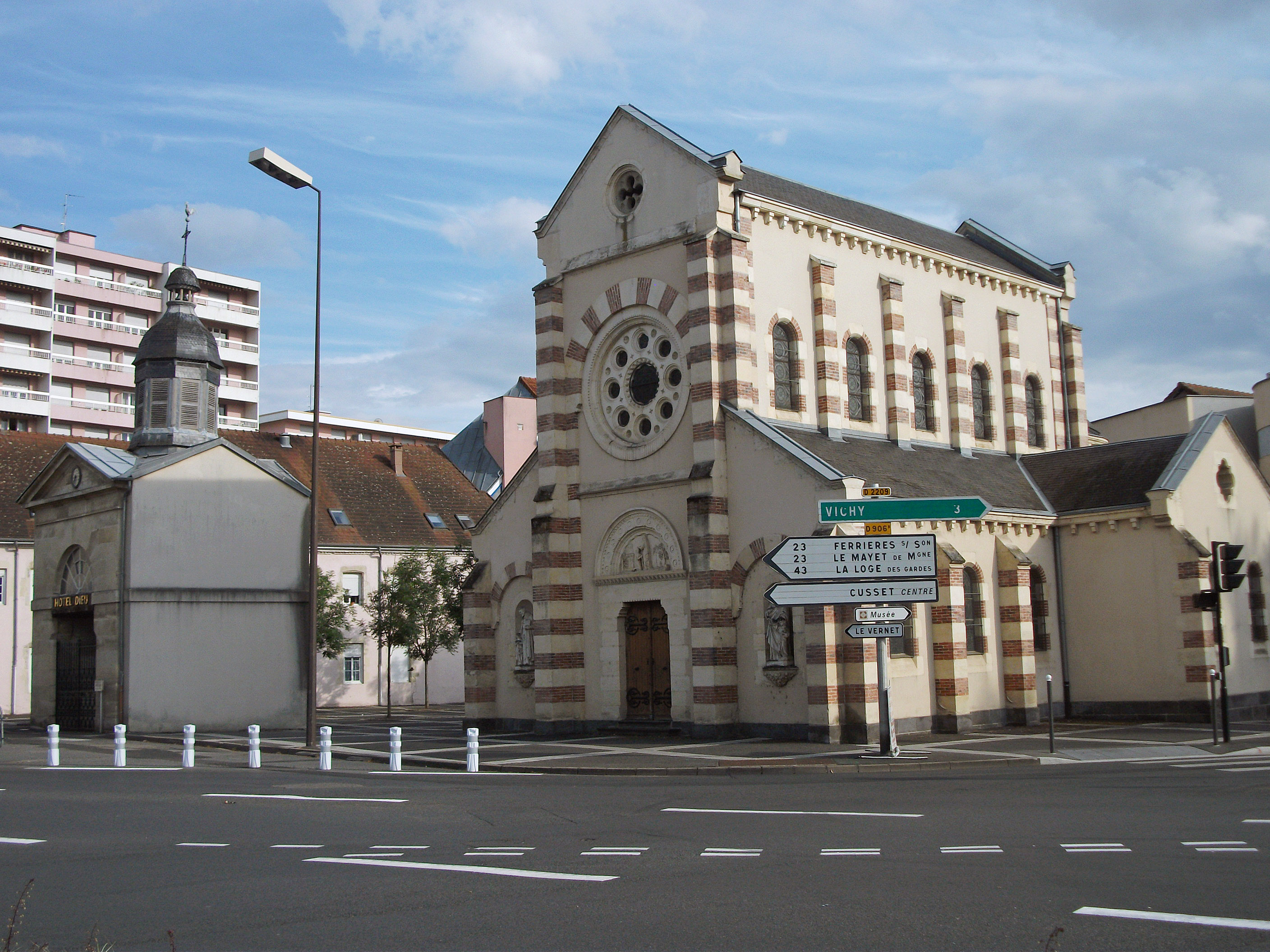 Hôtel Dieu in Cusset